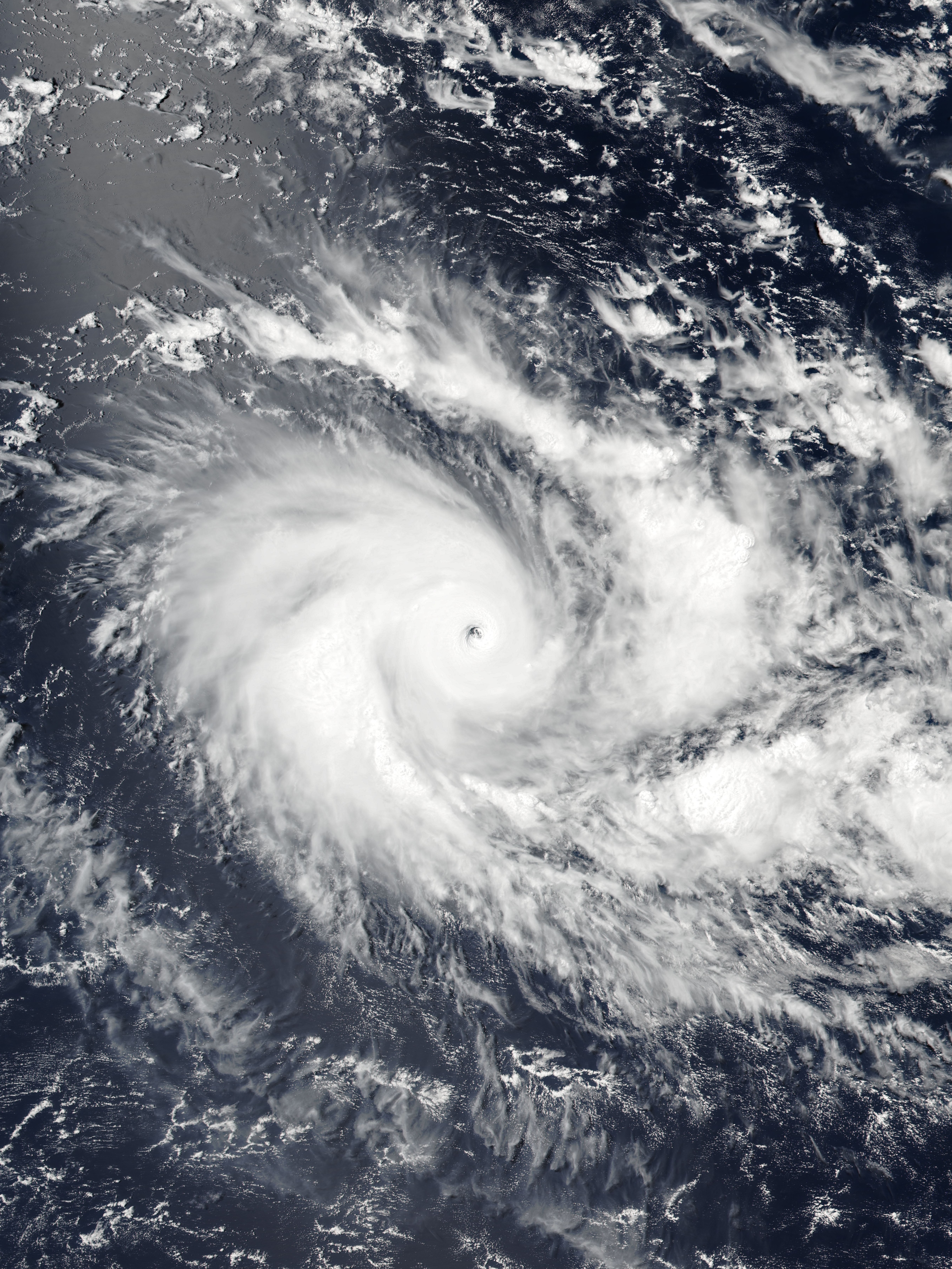 Intense Tropical Cyclone Emeraude over the South-West Indian Ocean on 17 March 2016.